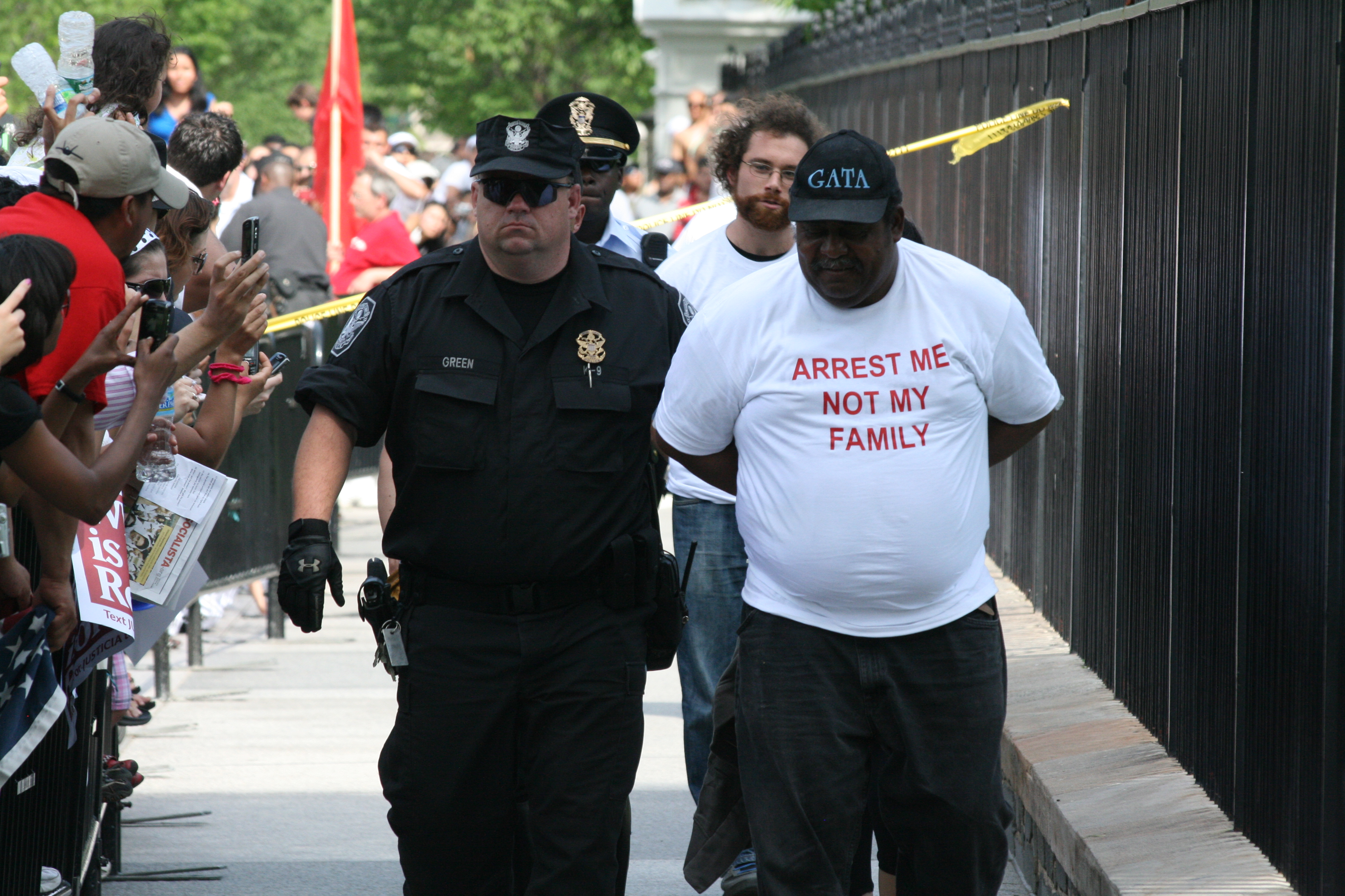 On May 1, 2010 leaders of the immigration reform movement were arrested in Washington DC. At the end of a peaceful demonstration at Lafayette Park, leaders of the immigration reform movement were arrested for a sit-in at the railings in front of the White House in what was intended to be an act of civil disobedience. Set against the background of Arizona's adoption of SB1070, the leaders vowed not to move from the railings until either an immigration reform law was passed or they were arrested. Police arrested the volunteers in a very calm and civil pro-forma manner while the surrounding crowds called on President Obama to take the lead in implementing immigration reform. The speakers said that the Democrat Party, because of the promises it made, especially to the Latino community, during the election, now had a duty to deliver on those promises. The leaders were arrested and placed on board a bus that had been parked nearby. The bus then drove 20-30 feet to the plaza in front of the White House, where each of the arrested leaders was removed one at a time, photographed and videotaped, and then put back on the bus. The bus remained parked for 10 minutes and then drove away, apparently taking the arrested volunteers and leaders to a police station in Anacostia in Washington DC for processing. Once the bus left the crowd dispersed peacefully. One police officer that was overseeing the police activity at the scene said that the organizers of the demonstration had ensured that it was both well organized and controlled.